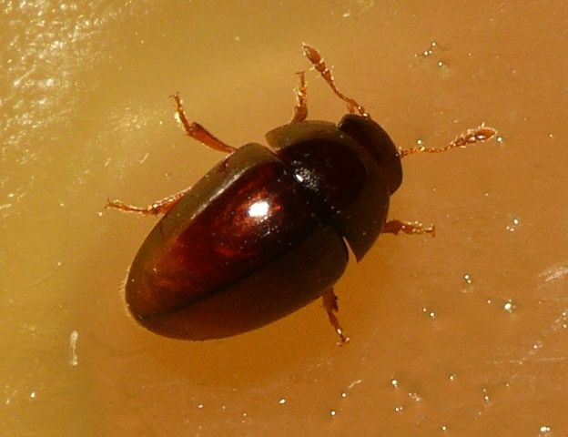 Olibrus affinis. Location: The Netherlands - Rhenen - Blauwe Kamer